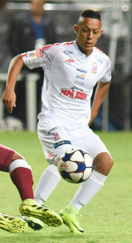 Jimmy Marín playing for Belén F. C. on November 2nd, 2016.